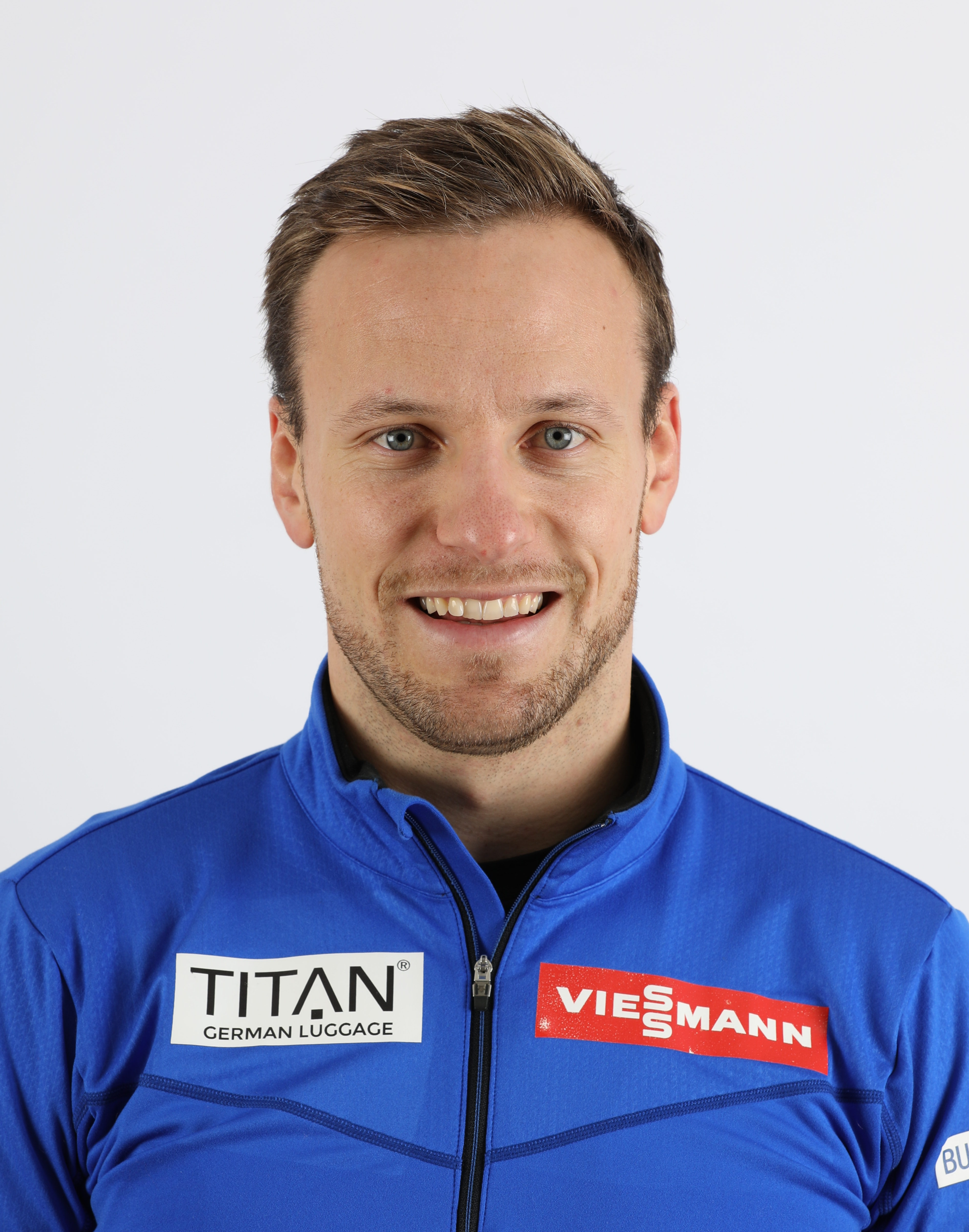 Athletes' photo project at the 2018/19 Innsbruck-Igls Luge World Cup: Tobias Arlt (Deutschland)